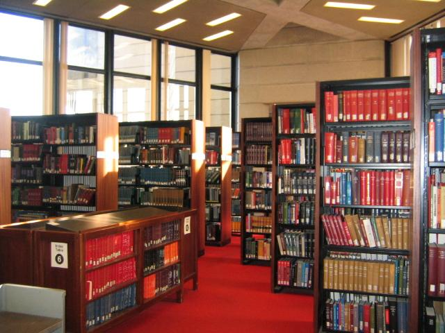 University of Toronto bookshelfs, photo by Nicholas Moreau.